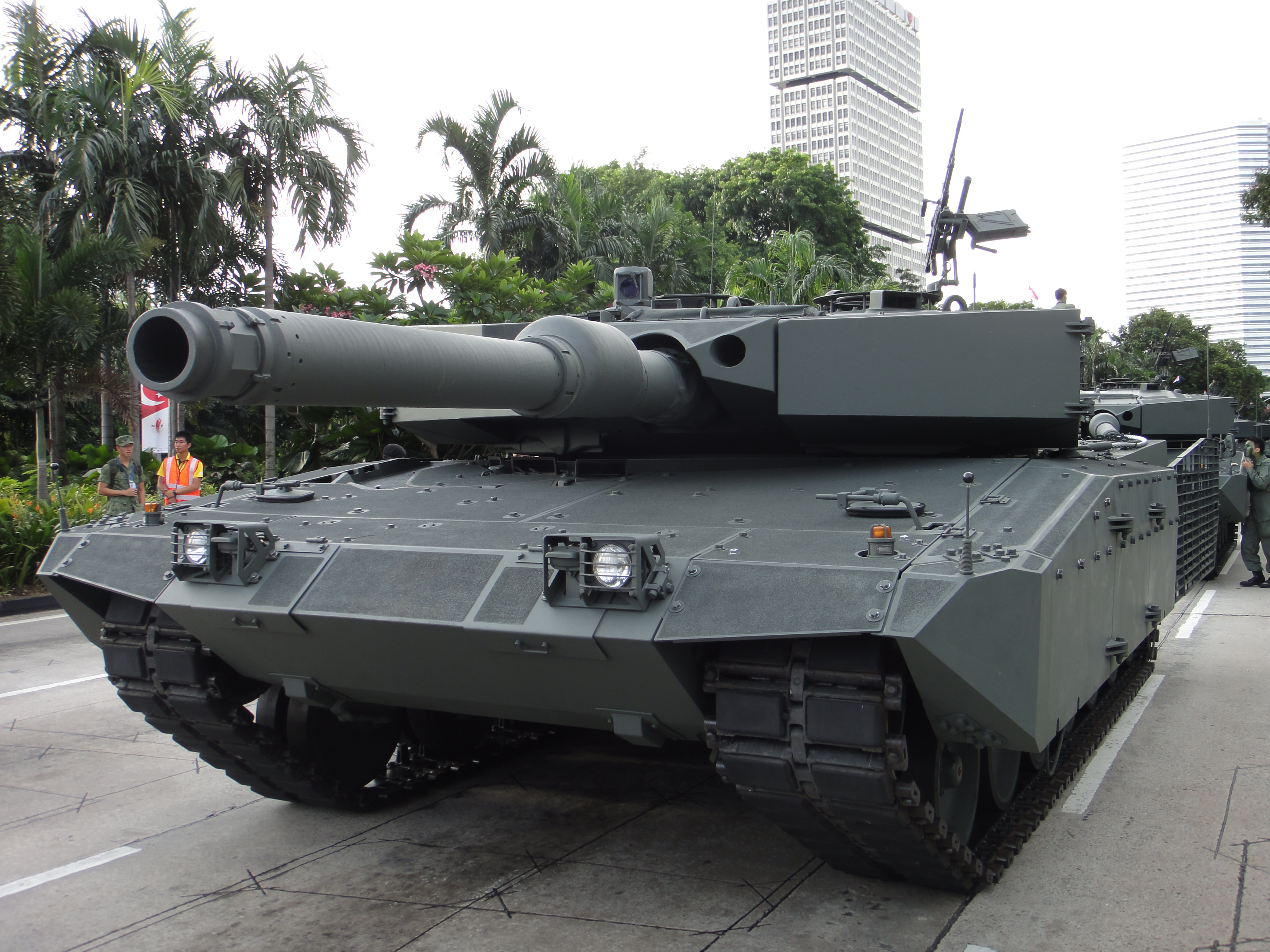 A Singapore Army Leopard 2A4 during National Day Parade 2010 rehearsals.